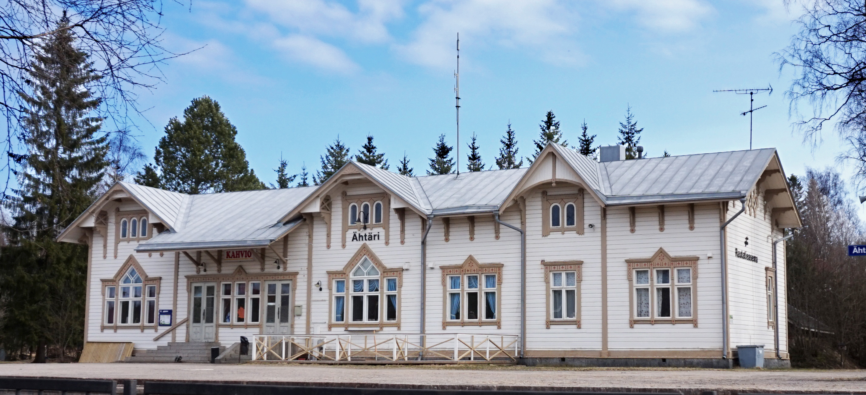 Train station of Ähtäri.